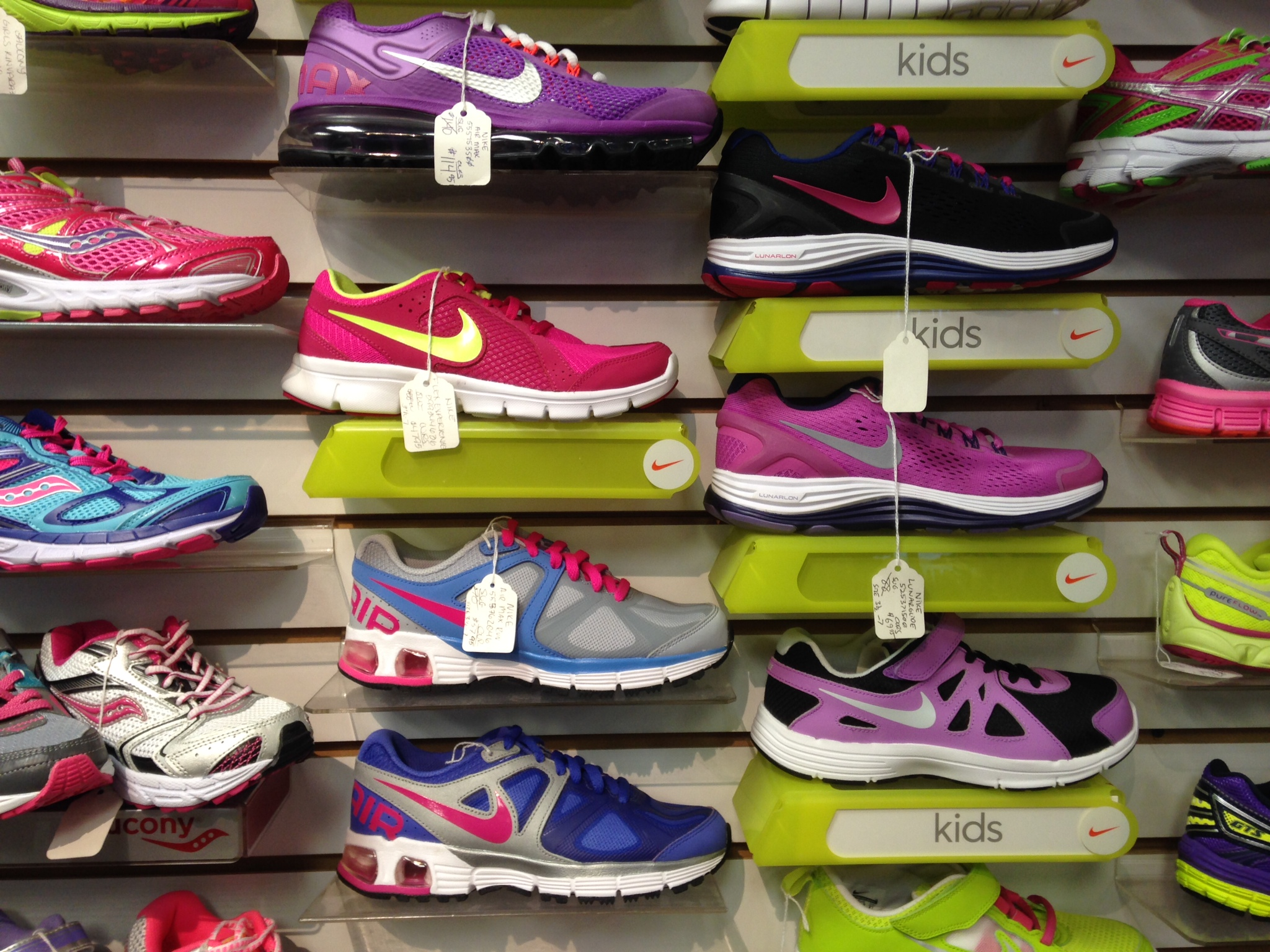 Running shoes on display at a shoe store